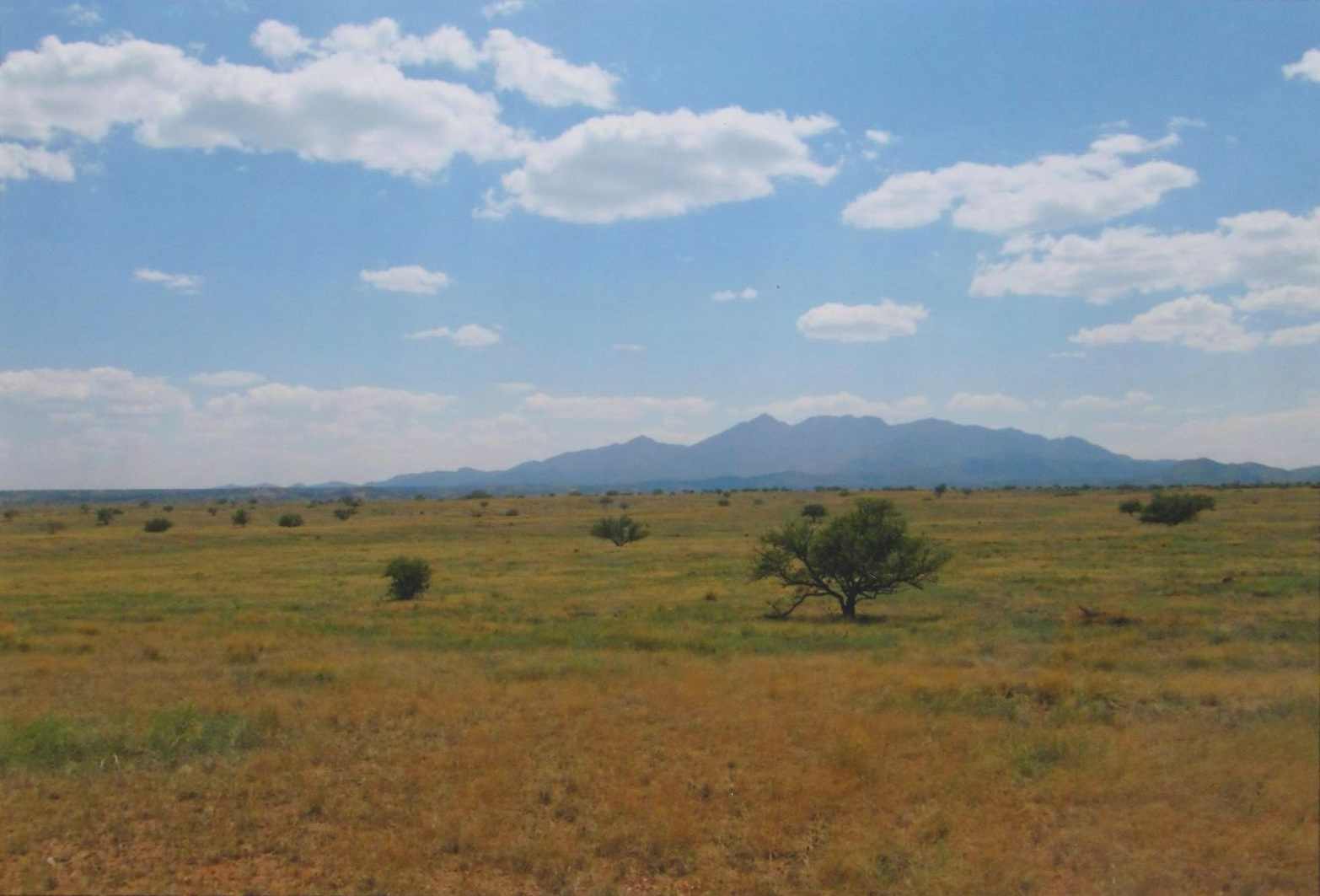 Prairie in Cienega Valley, Arizona, near the Empire Ranch House in the Las Cienegas National Conservation Area.